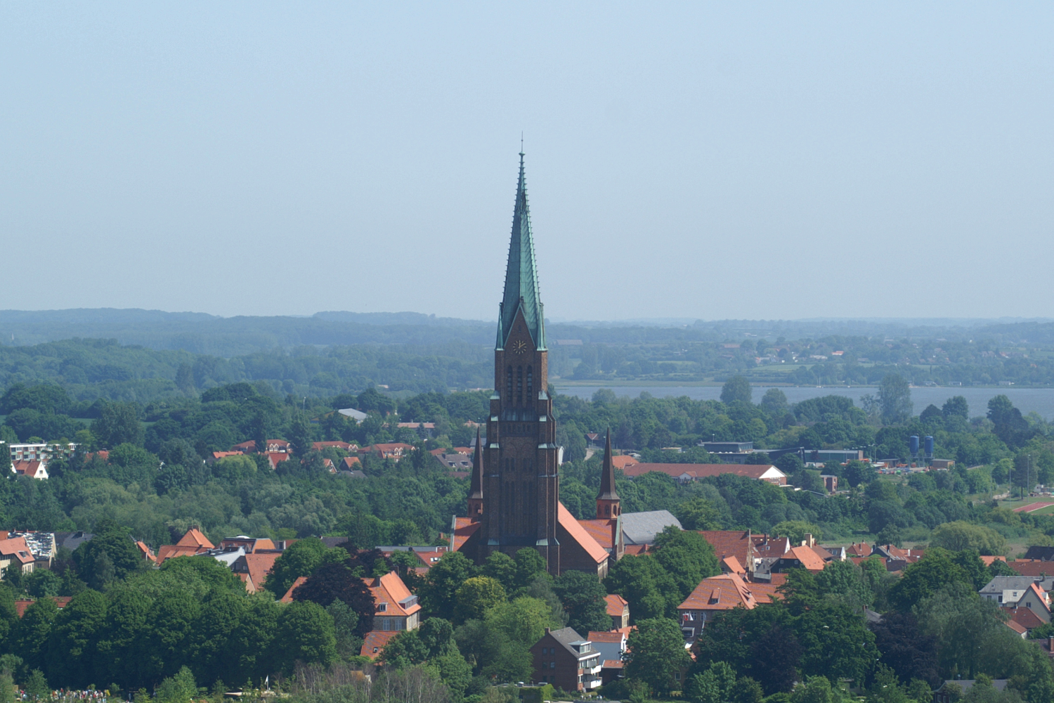 St Peter's Cathedral in Schleswig. - Google Maps - Google Earth